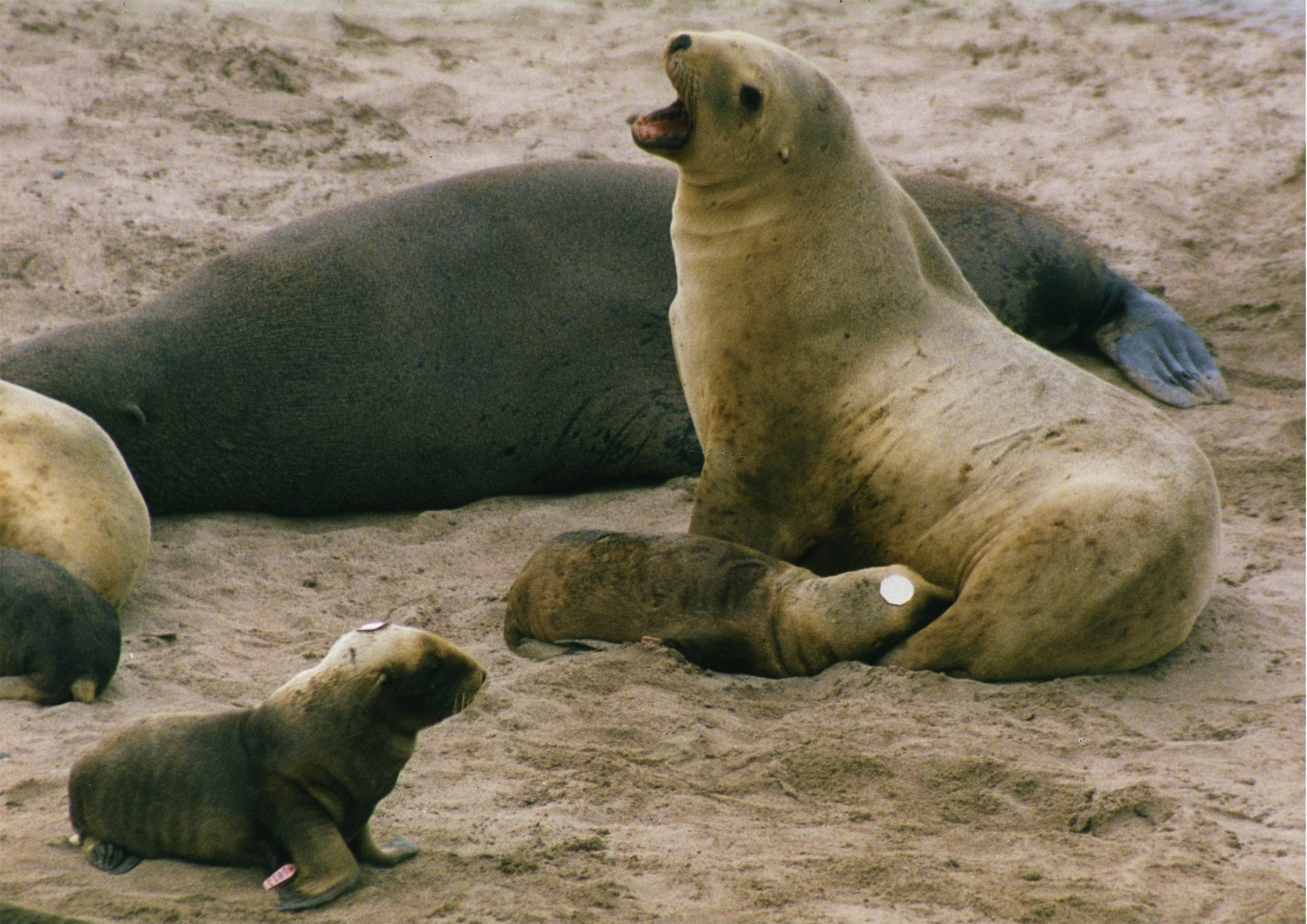 New Zealand Sea Lion is nursing at Enderby Island, New Zealand. The image is a scan of my old print. The image was taken by Brocken Inaglory